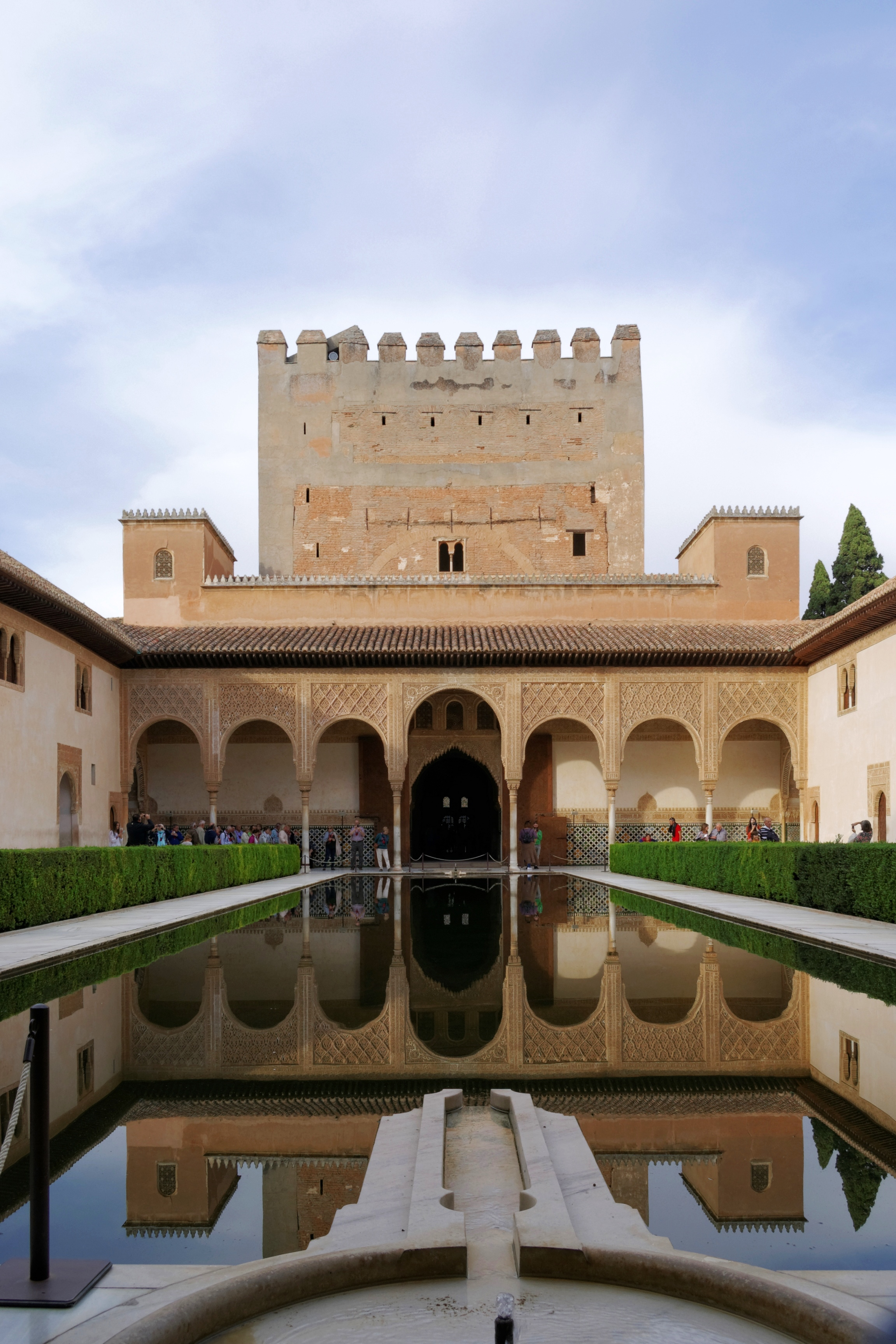 Spain, Granada, Alhambra Patio de los Arrayanes